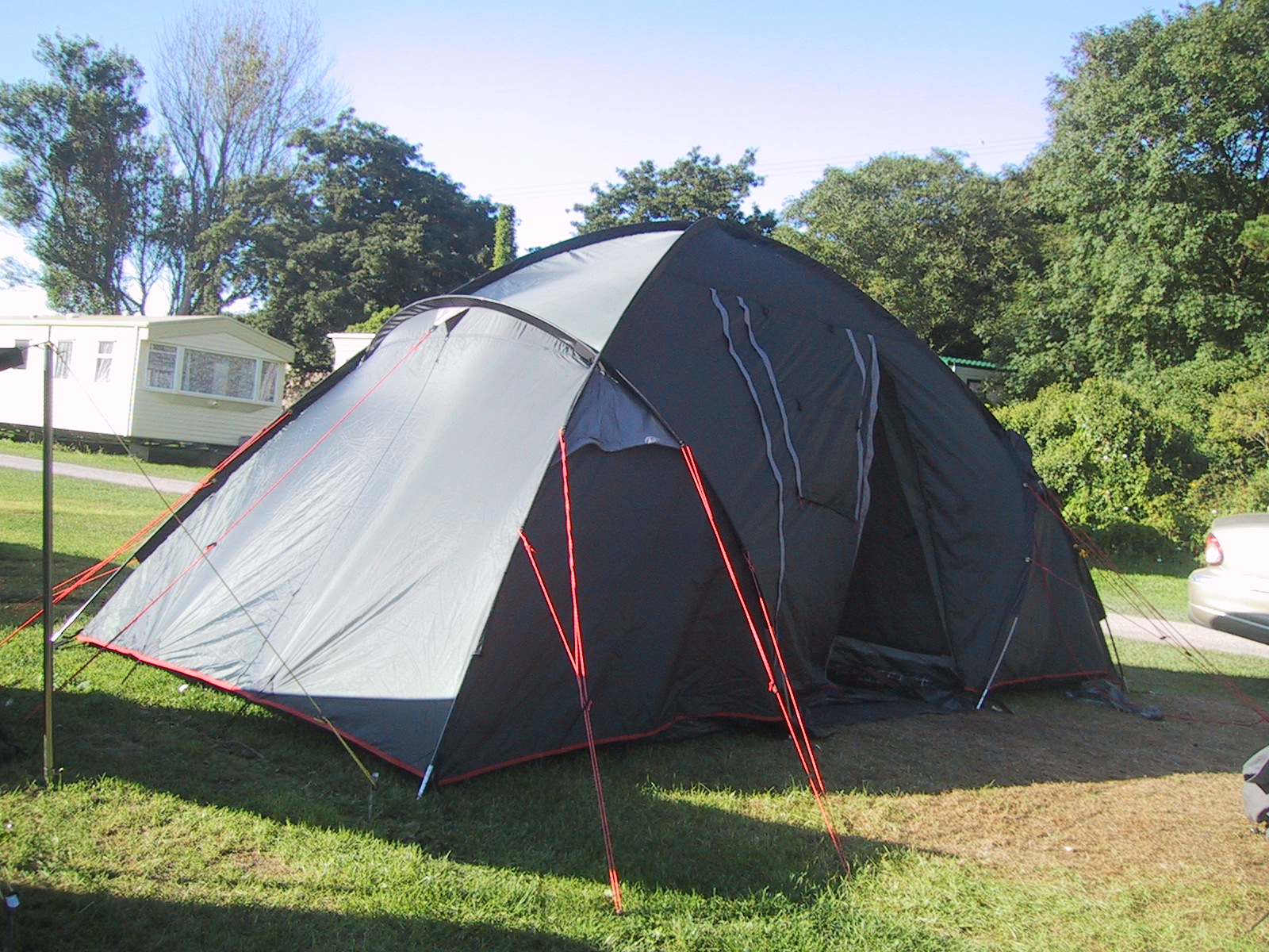 Modern 'dome' tent